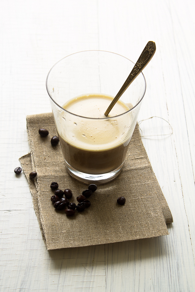 Vietnamese Egg CoffeeTiếng Việt: Cà Phê Trứng